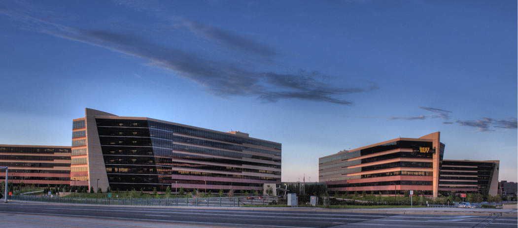 HDR shot of the Best Buy corporate campus on Penn Ave. in Richfield, Minnesota.